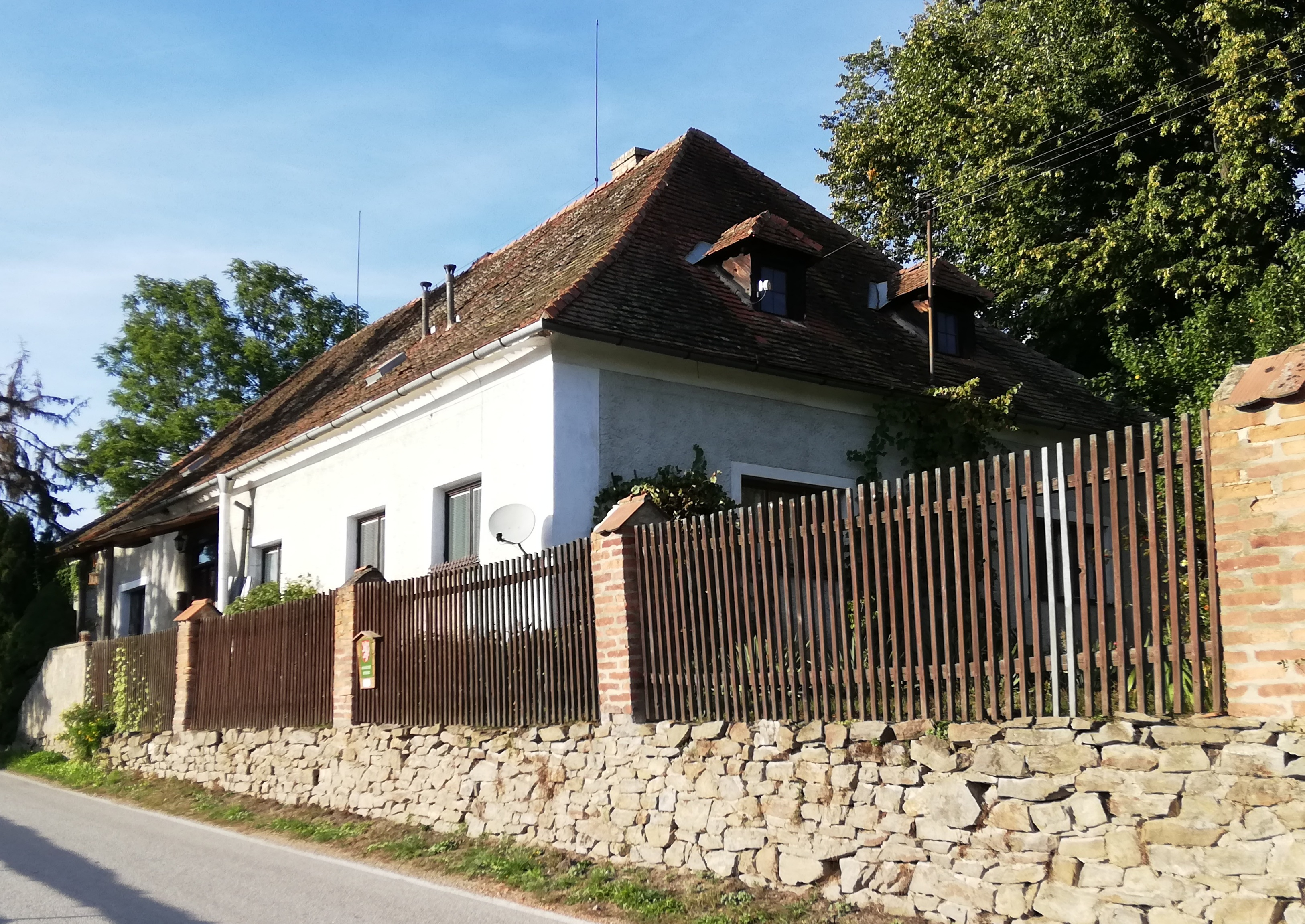 Litoradlice (native house of Adolf Rodler, memorial tree on the right)